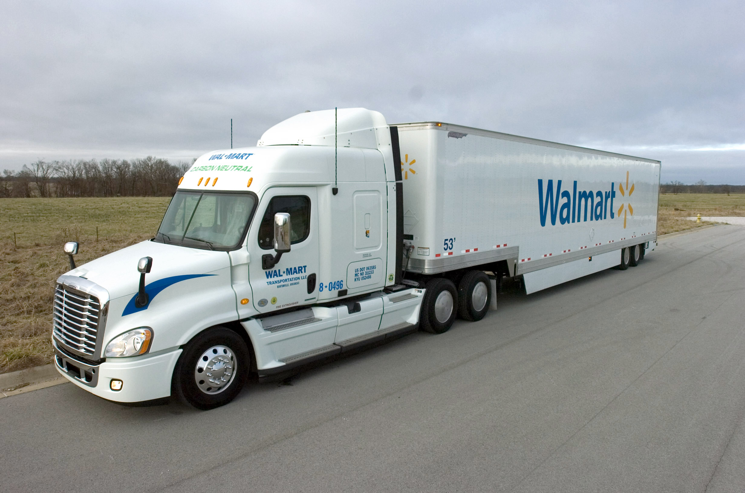 Fifteen trucks operating in the Buckeye, Arizona distribution center near Phoenix, will be converted to run on reclaimed grease (FuelTM), made with the waste brown cooking grease from Walmart stores.